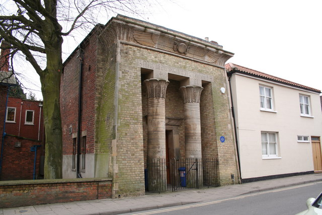 Freemasons' Hall, Main Ridge, Boston, Lincolnshire. Designed by G Hackford and built 1860–63. The building is plain brick, but its portico is based on that of the Temple of Dandour in Nubia.